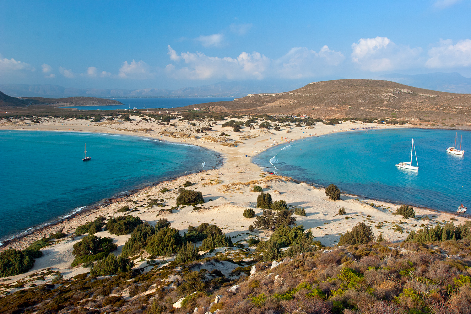 Simos beach (Elafonisos island, Greece)